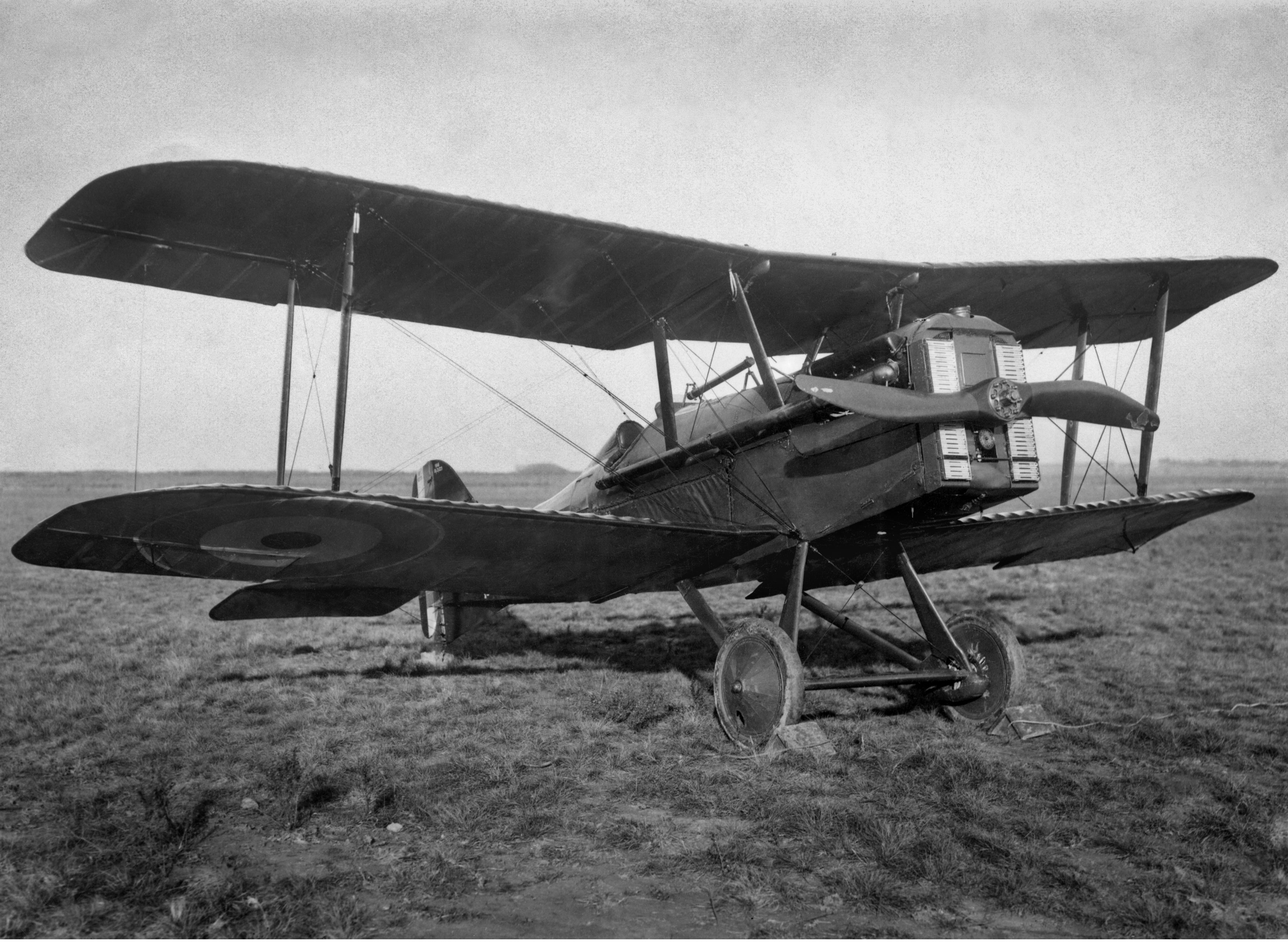 A2 SE 5A 3/4 front view on the ground Date/Time UknownAFIR No 000-148-070